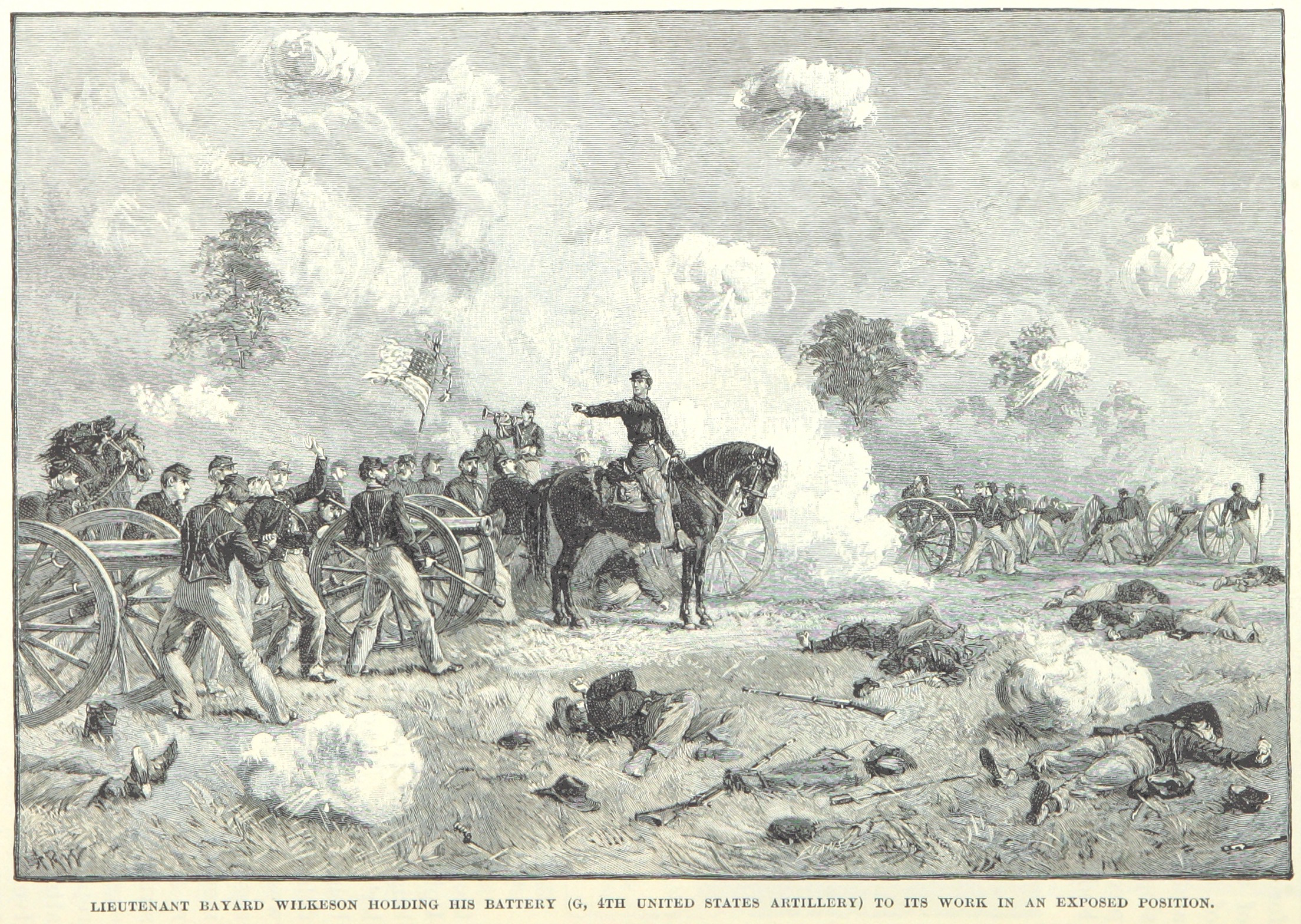 The 4th U.S. Light Artillery, under the command of Lieutenant Wilkeson, fights at the Battle of Gettysburg.